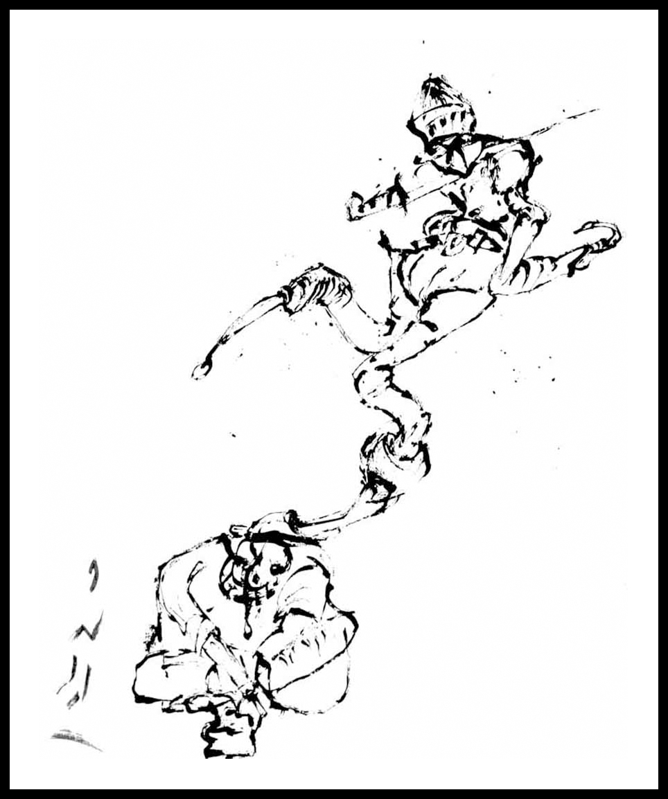 Cartoon by Ardeshir Mohasses